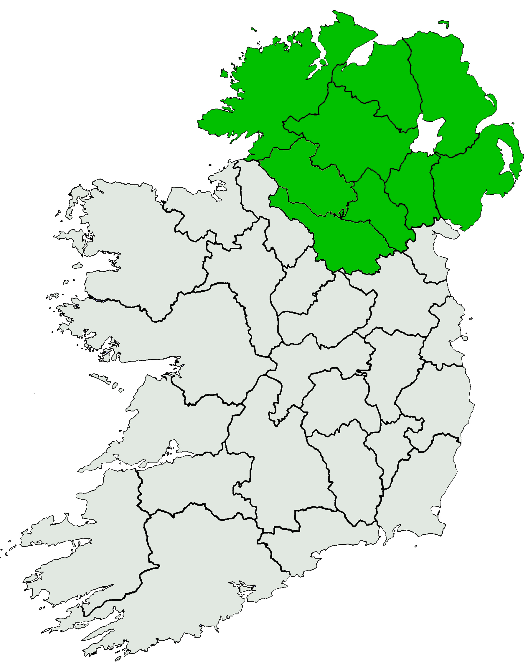 Ulster highlighted on an outline map of Ireland.